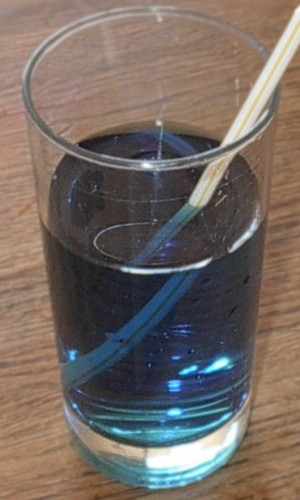 A photo showing refraction of light rays: a soda straw sticking out of a glass of water. It looks broken.